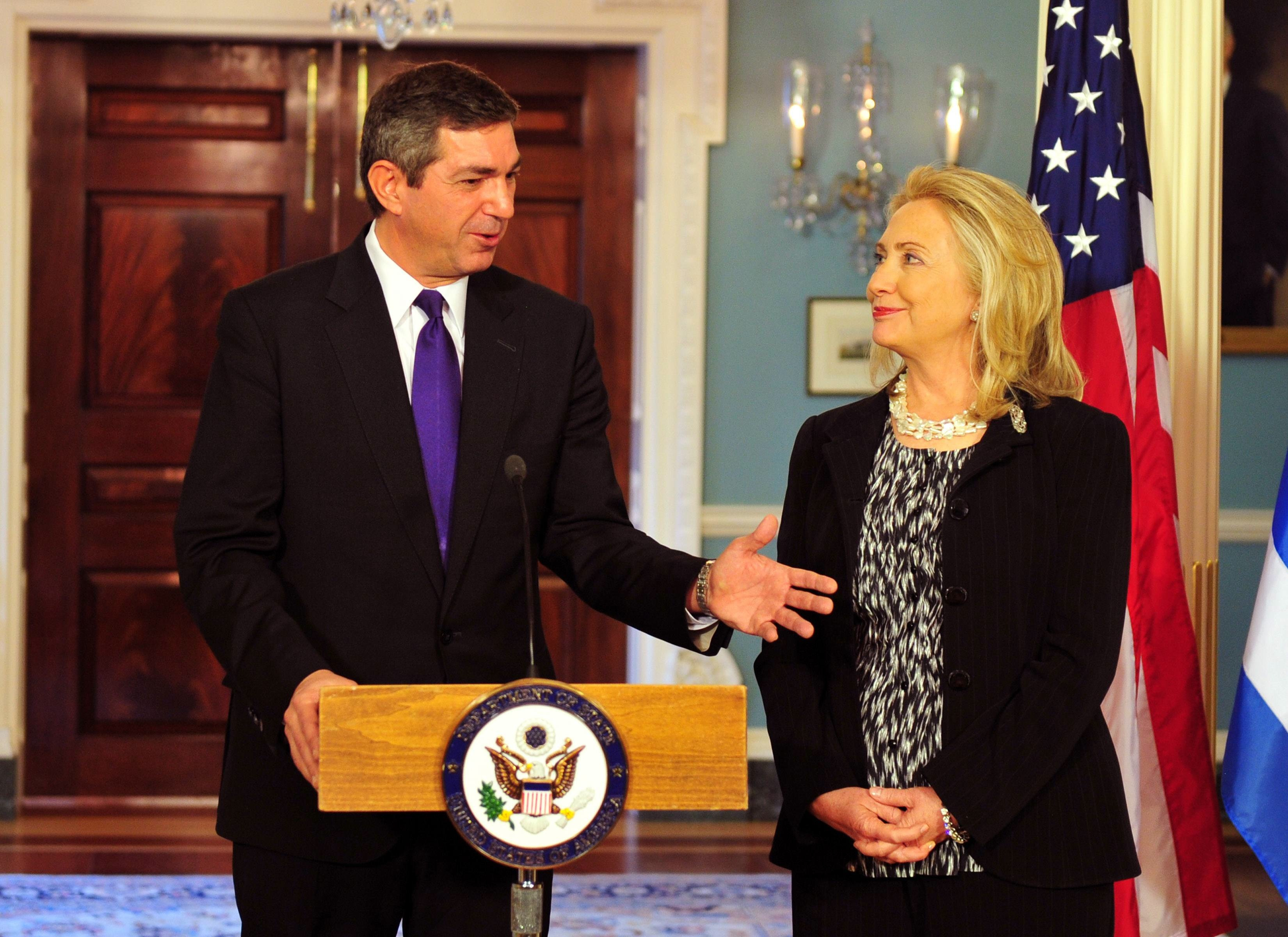 Statements of Greek Minister for Foreign Affairs Stavros Lambrinidis and U.S. Secretary of State Hillary Clinton (Washington, D.C.).